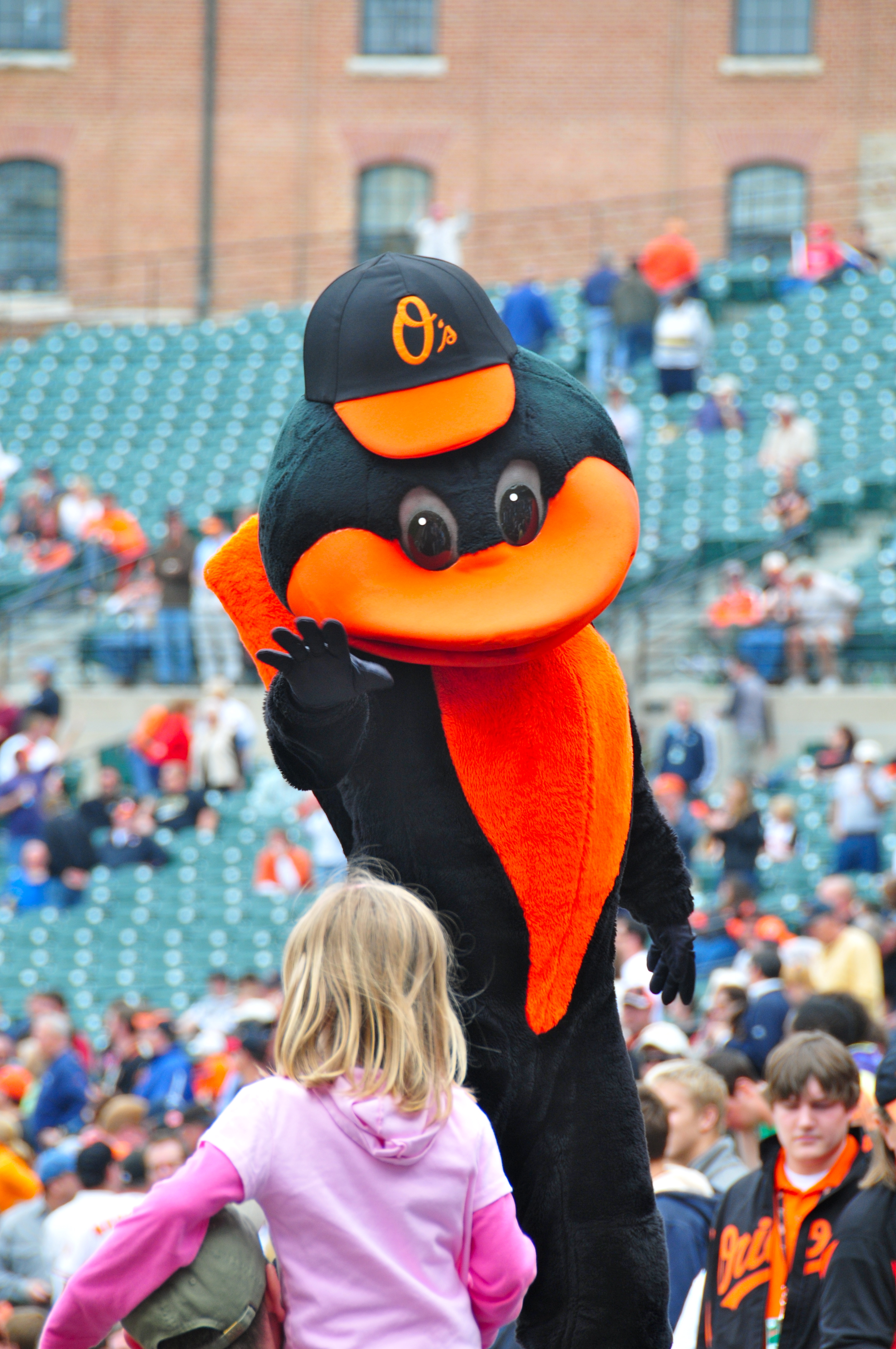 The Mascot of Baltimore Orioles entertaining crowd in a game